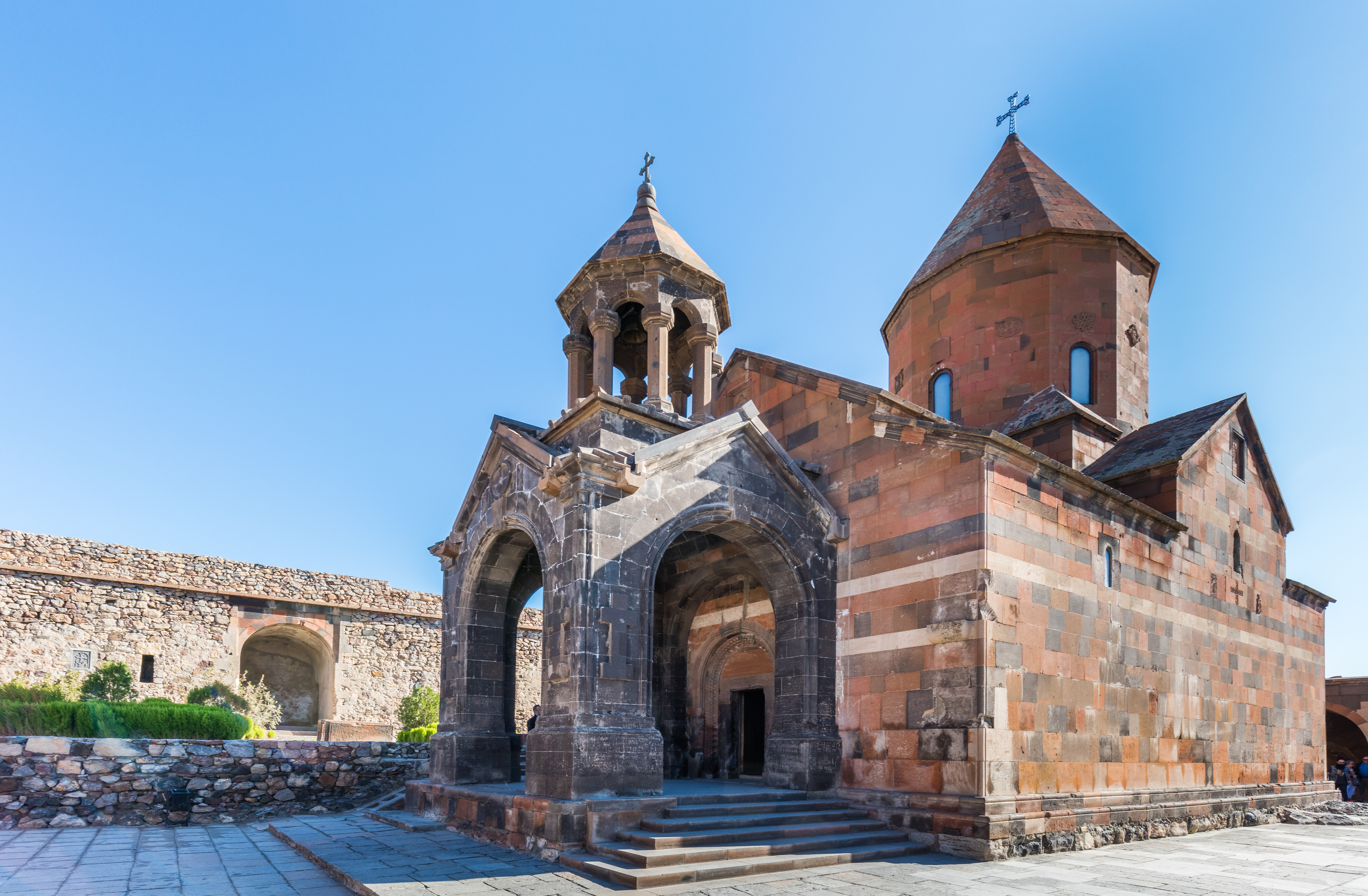 Khor Virap Monastery, Armenia